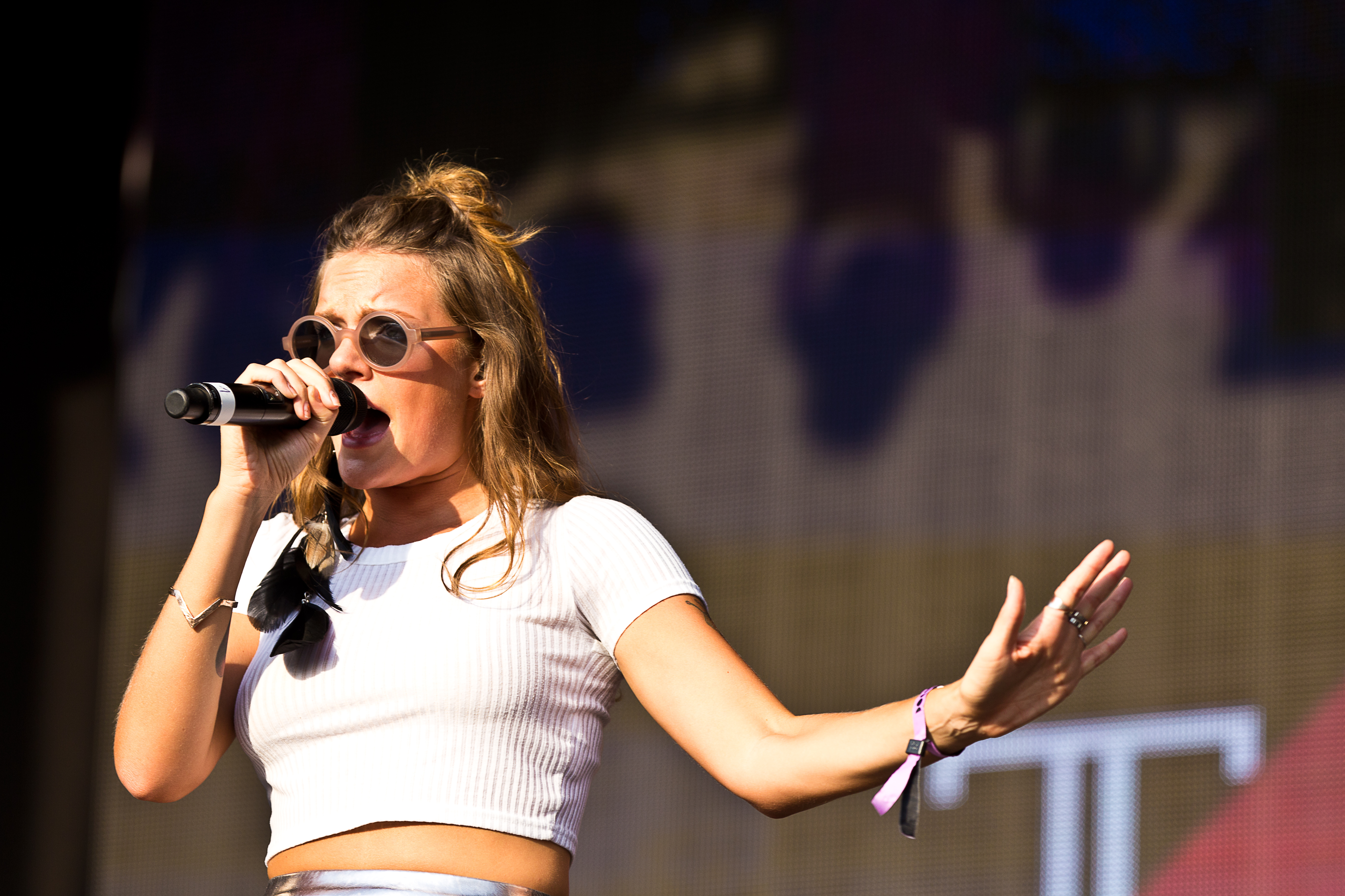 The Swedish singer Tove Lo at the Melt! 2015 in Ferropolis/Germany.